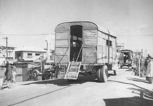 Converted Buses (Former US Military truck)